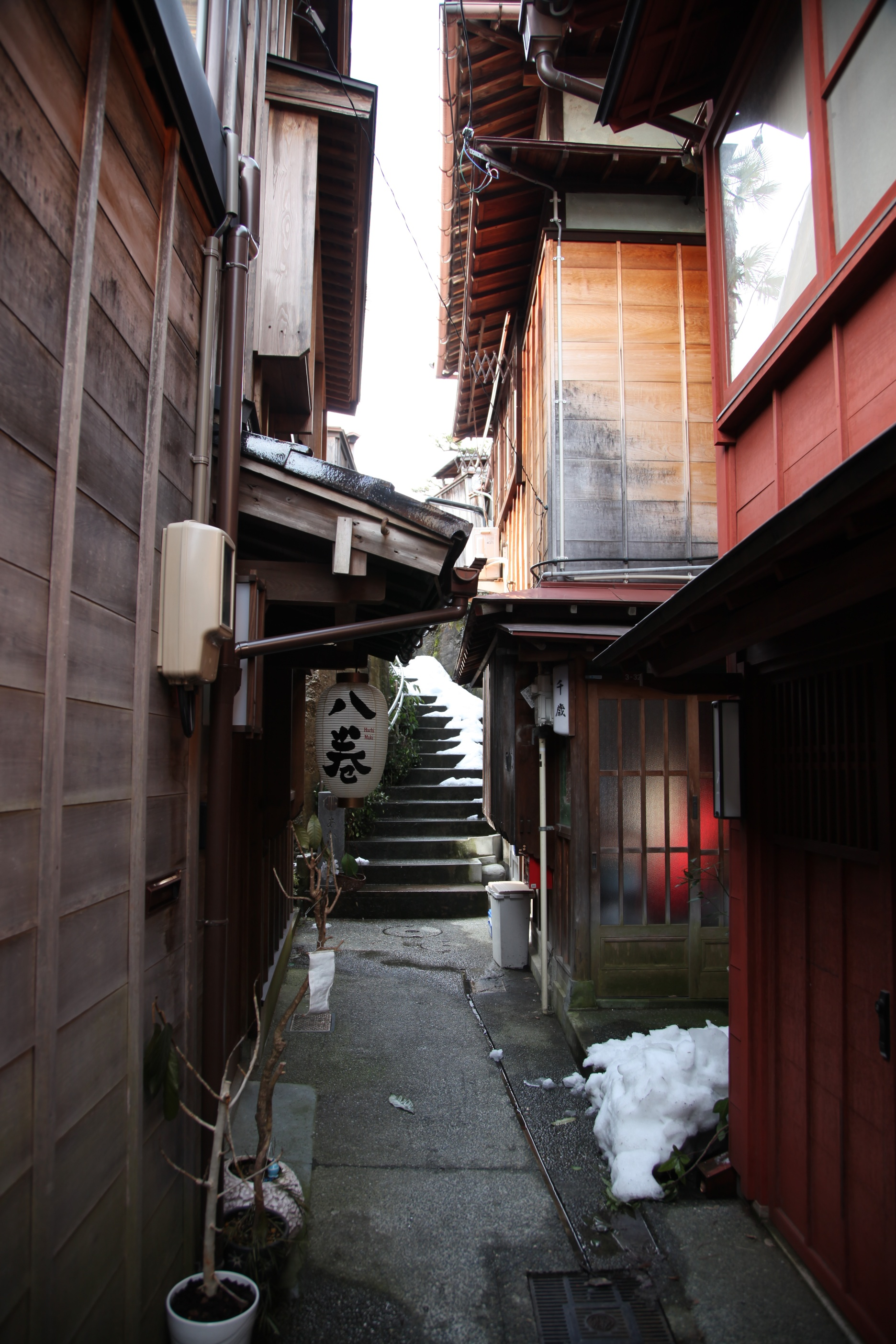 Kazuemachi in Kanazawa, Ishikawa, Japan